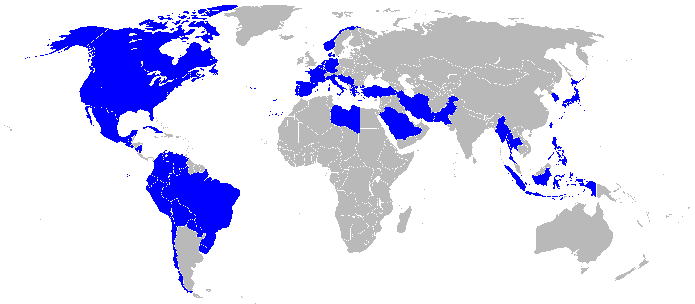 Map of the countries that used the T-33 Shooting Star